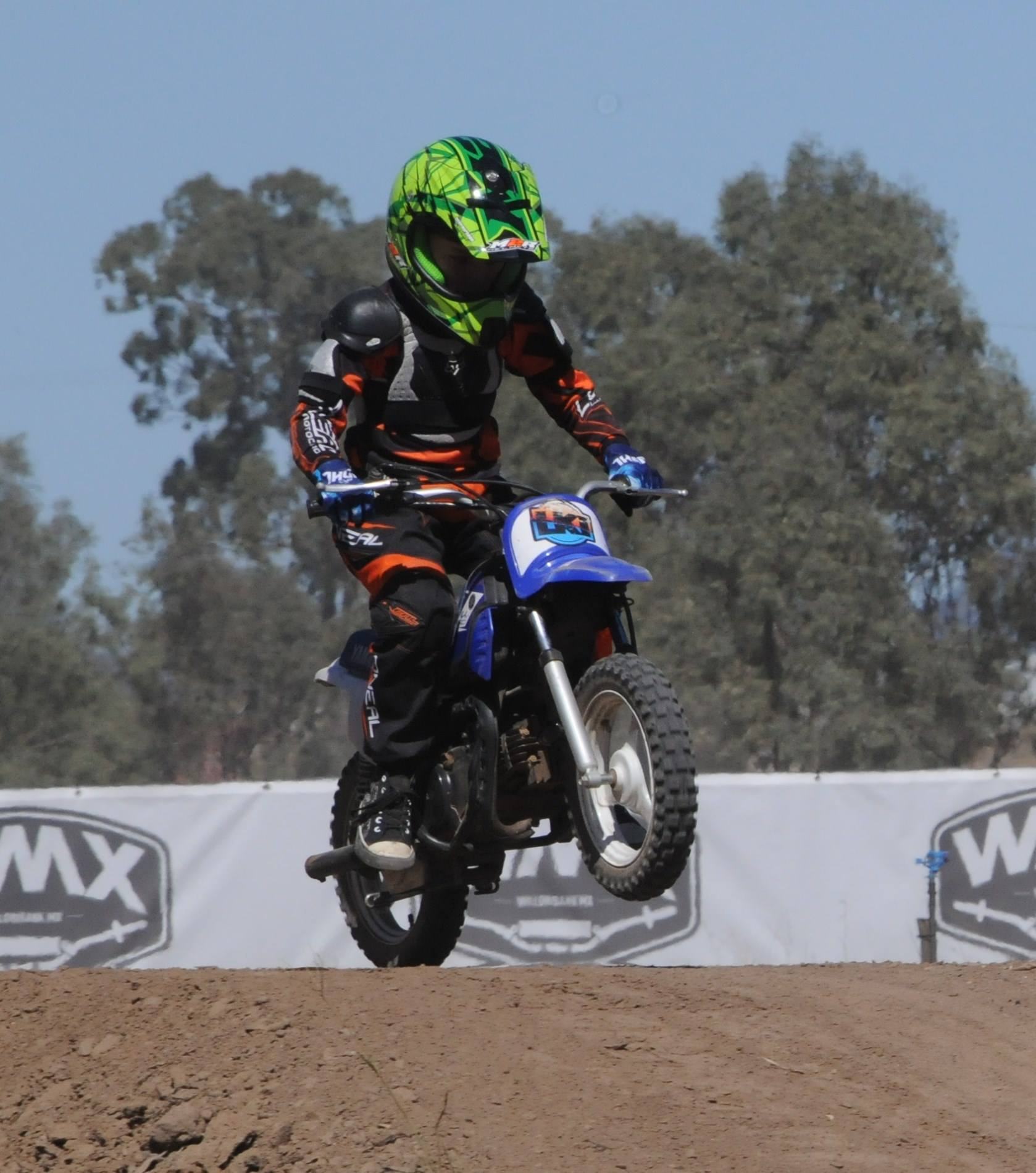 my first foray into action photography September 2017